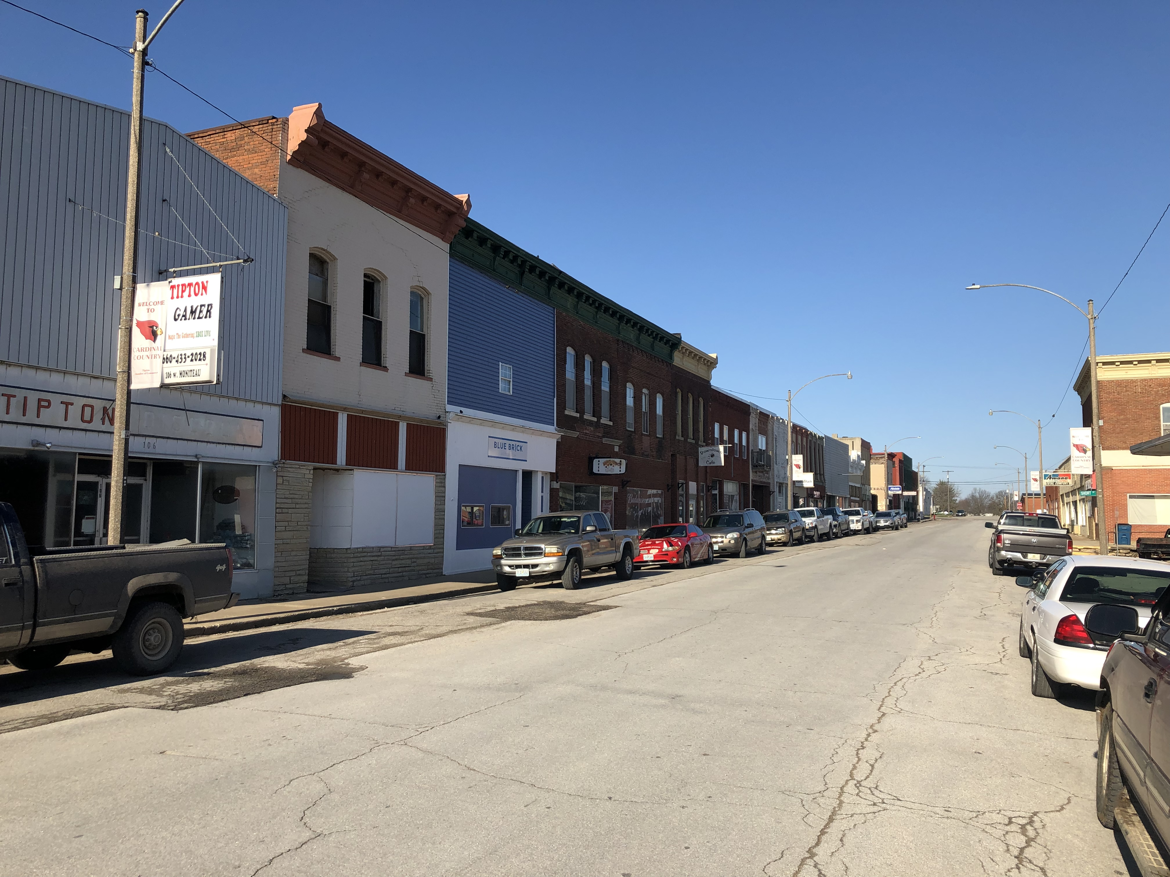 Downtown Tipton, Missouri on Sunday morning March 31 2019